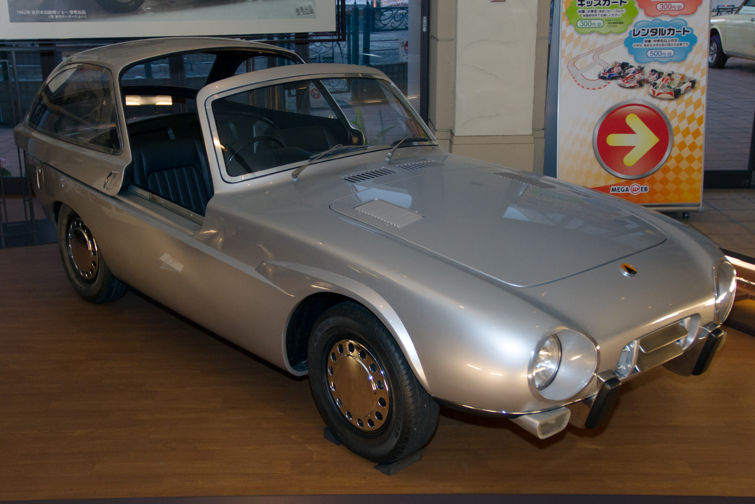 1962 Toyota Publica Sports